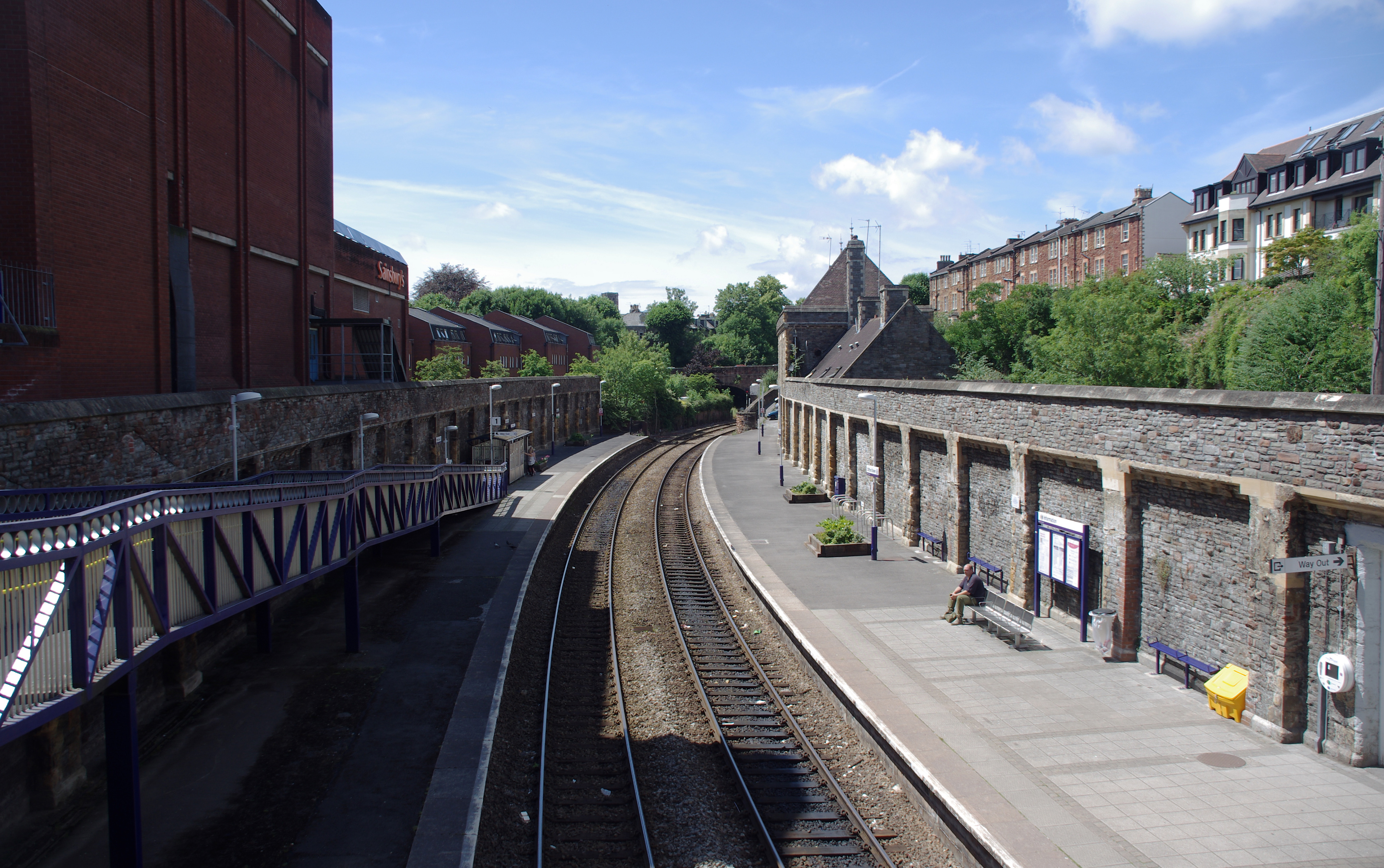 Clifton Down railway station on the Severn Beach Line in Bristol, viewed from the footbridge.